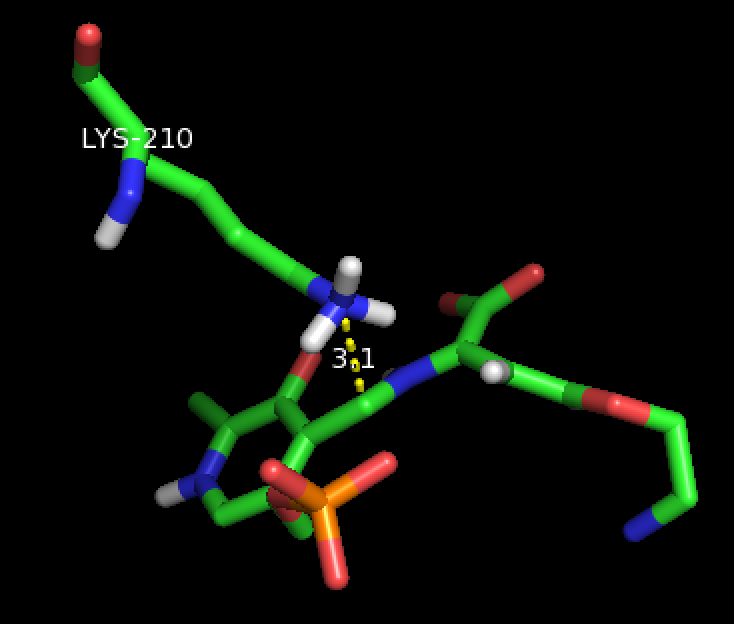 CBL inhibition by AVG